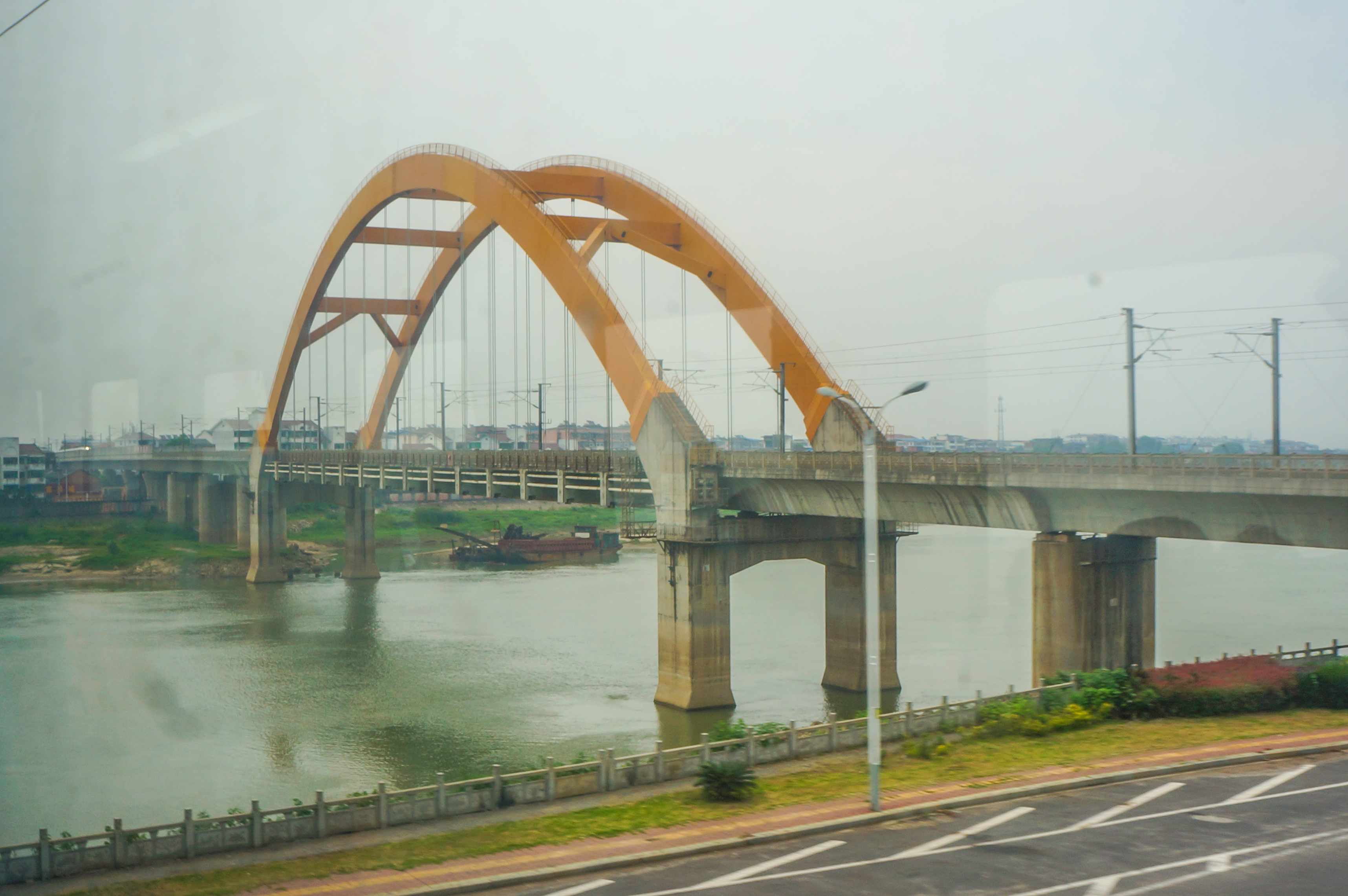 201705 Nanchang–Jiujiang Intercity Railway Yongxiu Bridge